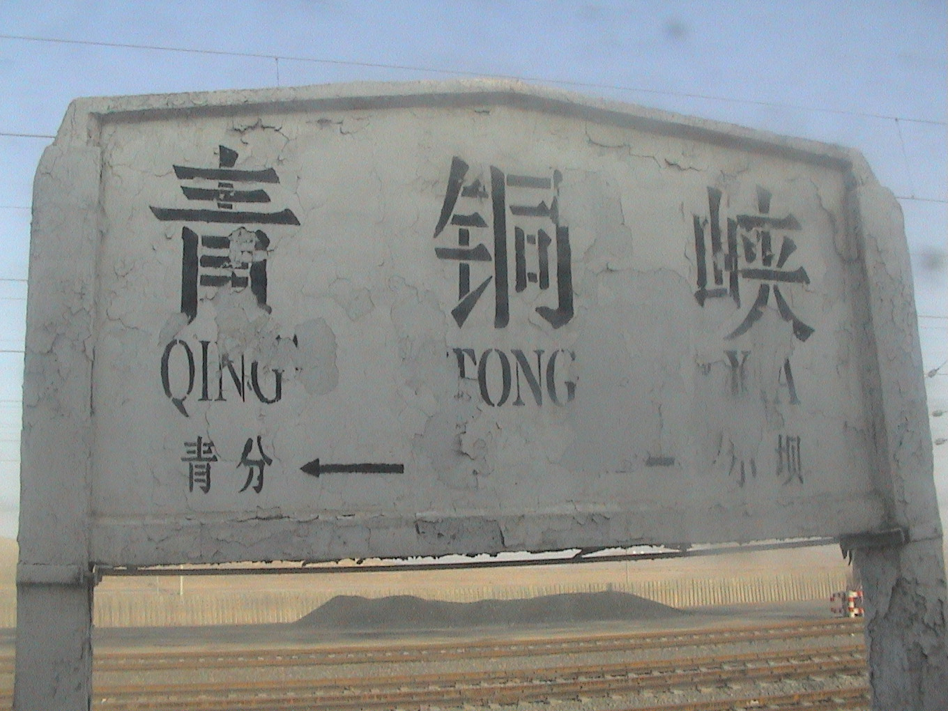 Qingtongxia railway station This image was taken by User:Yaohua2000 at 2006-04-22 23:47:02 UTC.